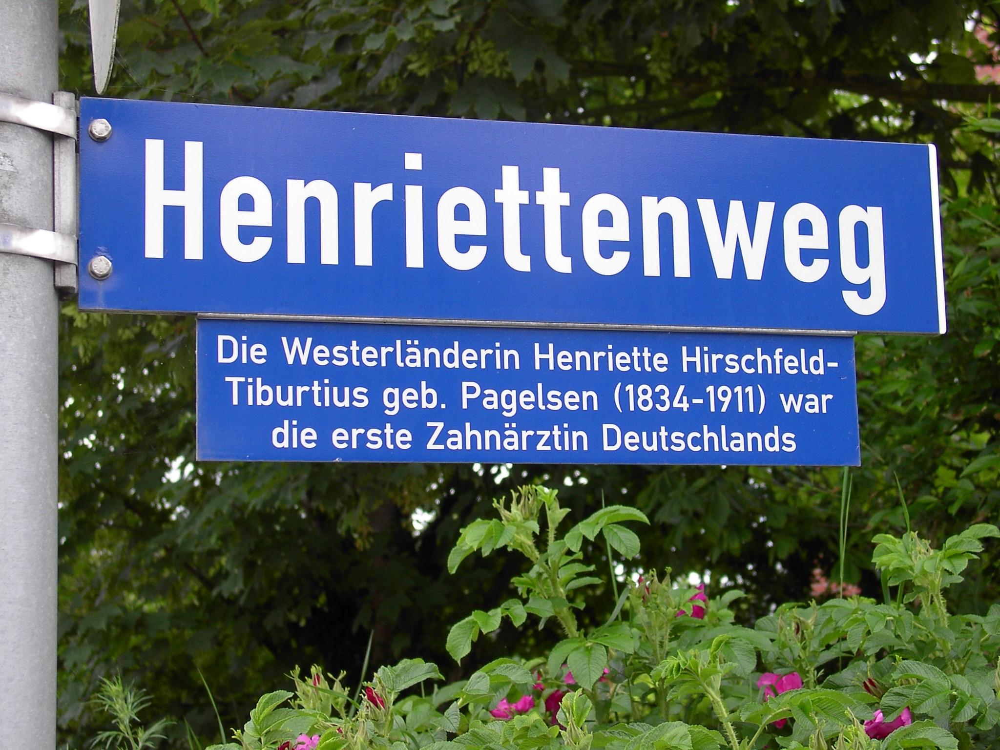 Street Sign located in Westerland/Salt/Germany. Made to remember the first female dental surgeon in Germany which was born on Sylt.